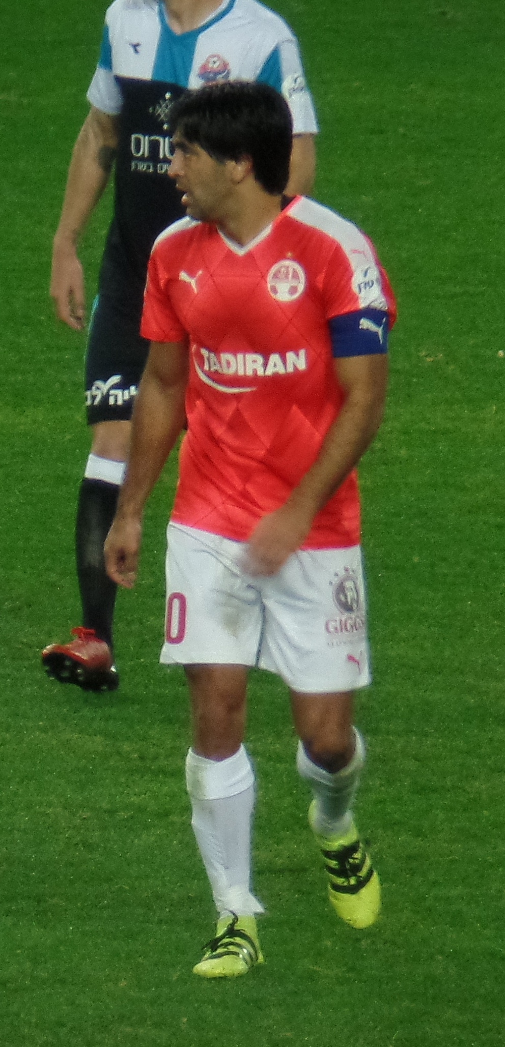 Elyaniv Barda SAMSUNG CAMERA PICTURES